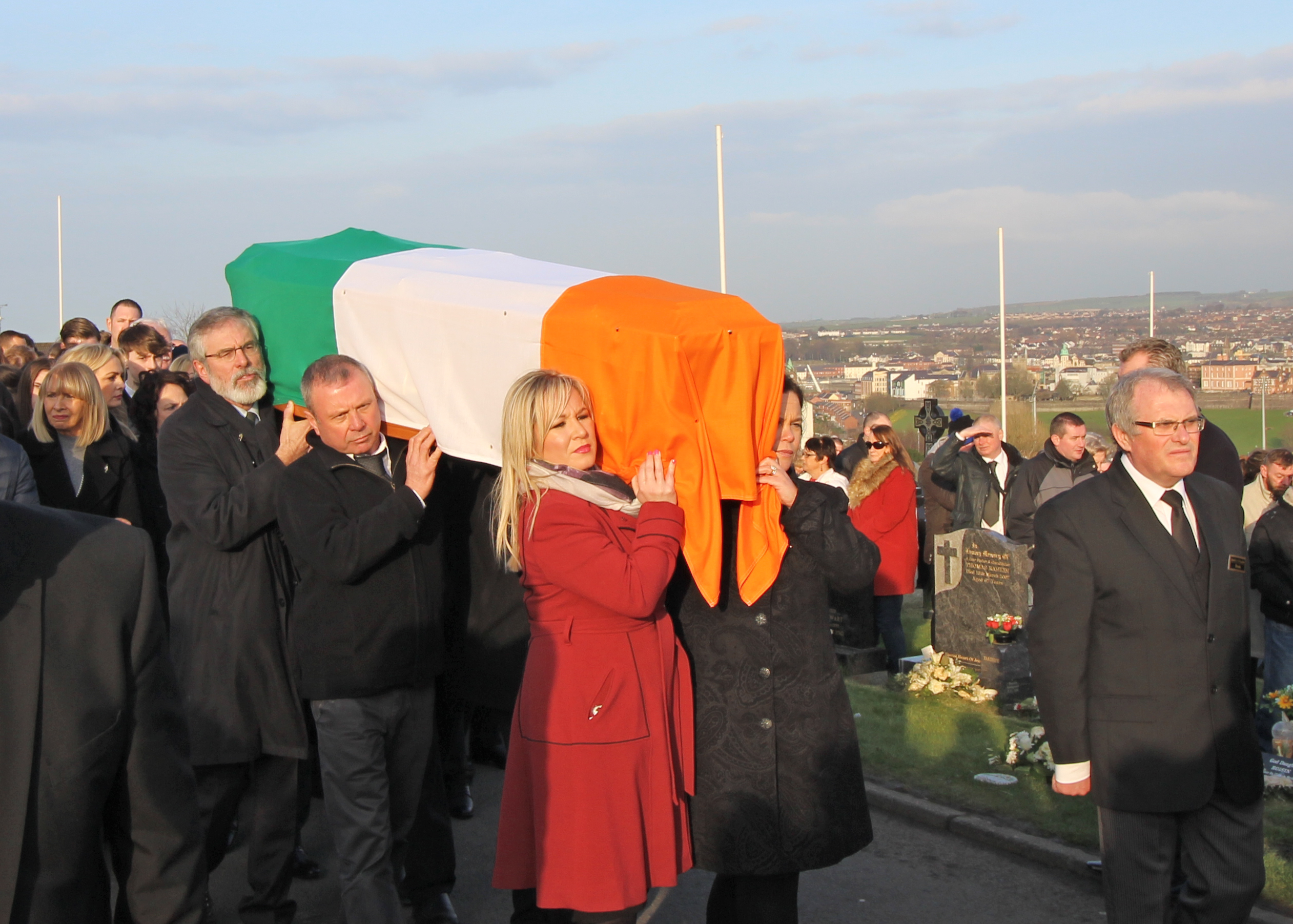 Funeral of Martin McGuinness (Gerry Adams, Michelle O'Neill, Mary Lou McDonald)